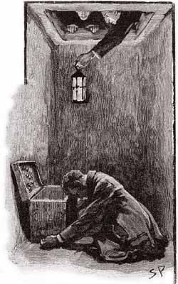 Arthur Conan Doyle, The Adventure of the Musgrave Ritual (1893), Illustration by Sidney Paget, in The Strand Magazine